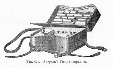 Illustration from The Medical and Surgical History of the War of the Rebellion (USG Printing Office, 1870-88) - Surgeon's field companion - part III vol 2 pag 915